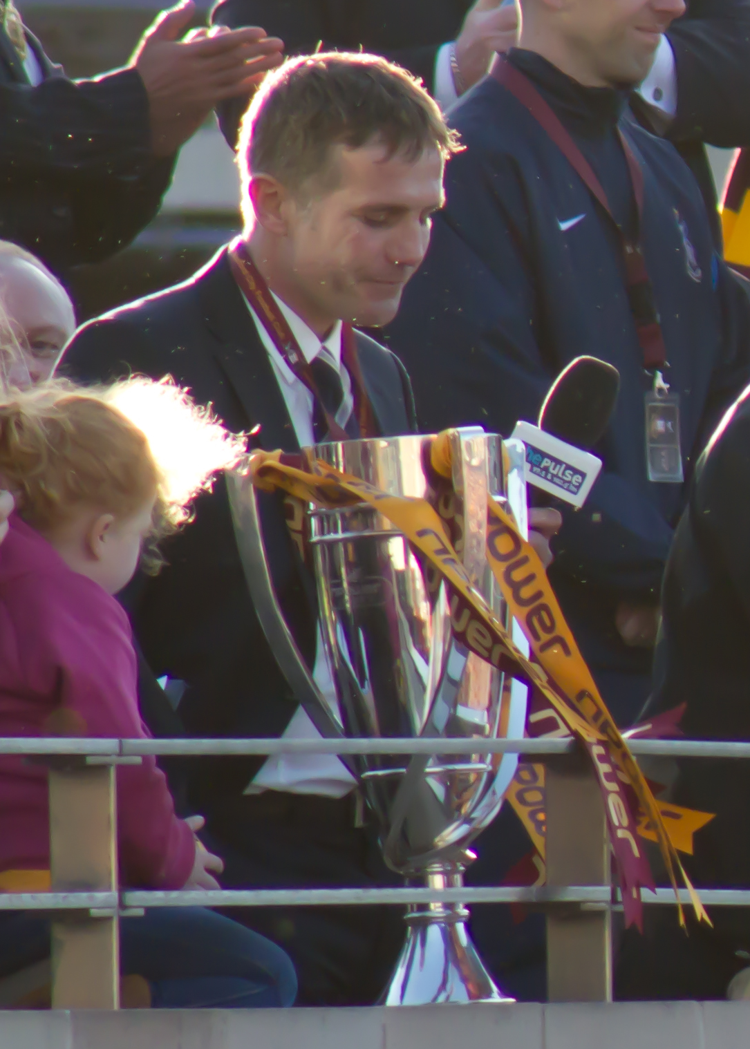 Phil Parkinson. Image cropped from original at flickr.